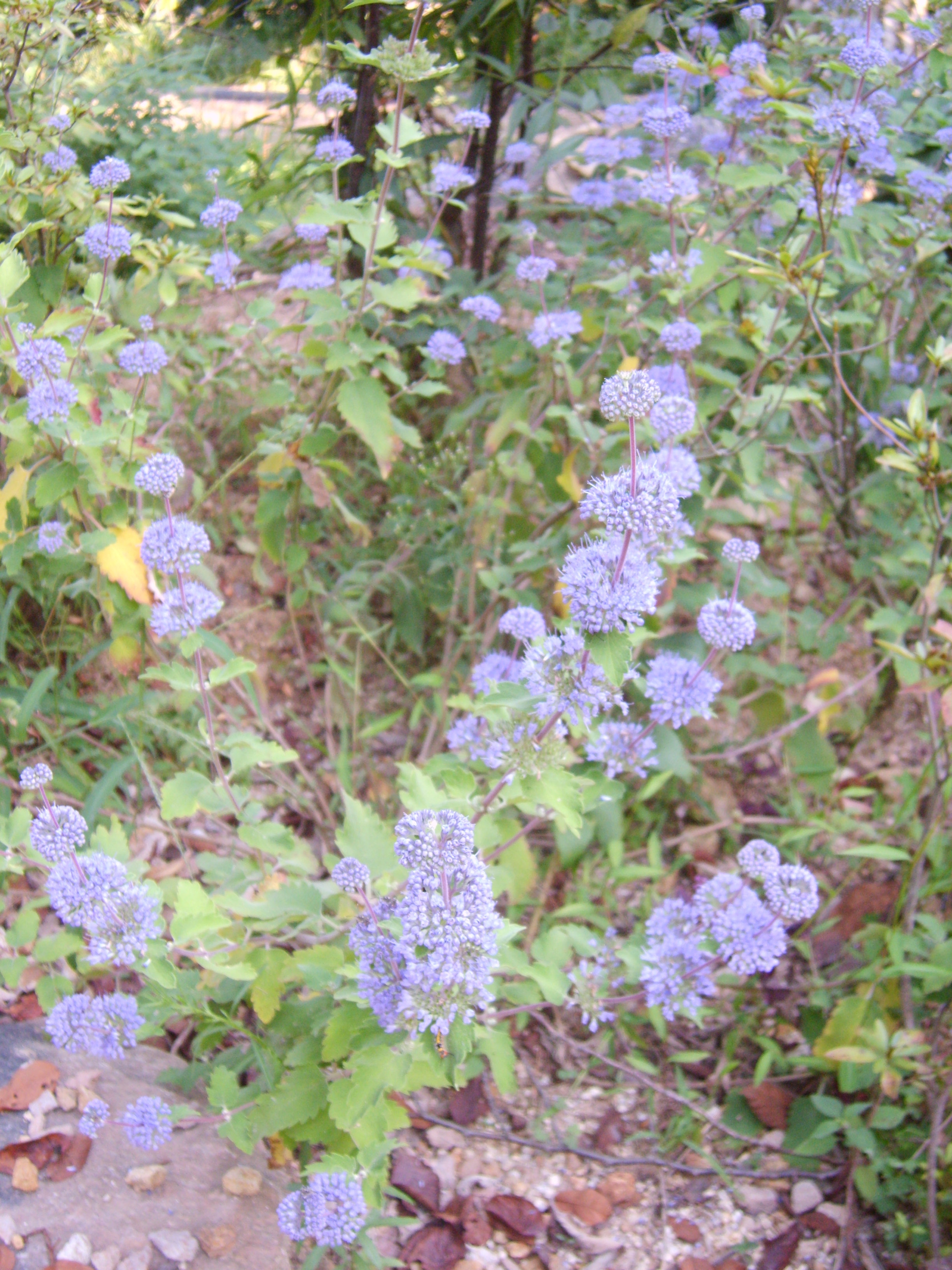 Caryopteris incana